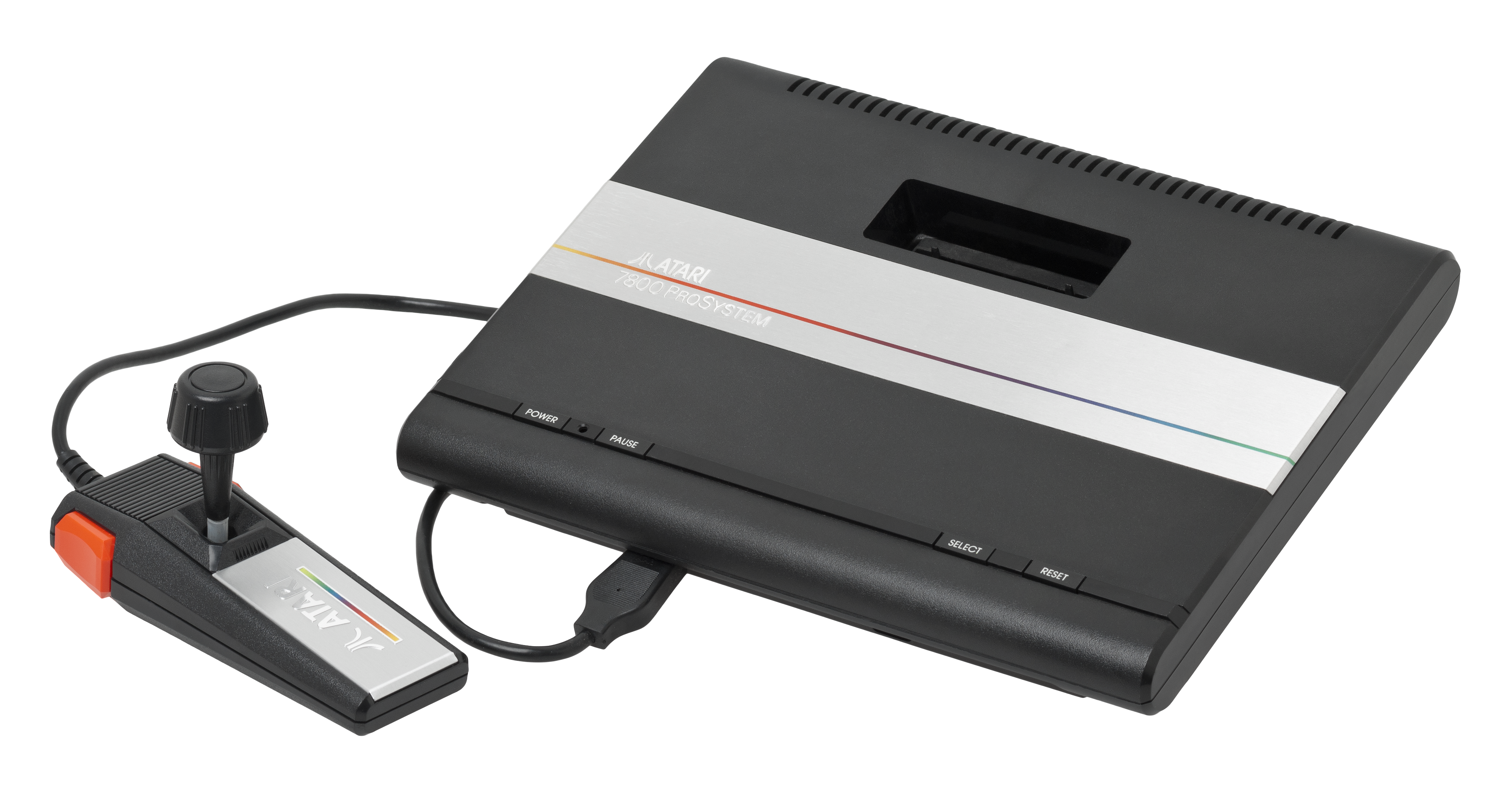 The American Atari 7800 with joystick controller. A third-generation video game console released by Atari in the mid '80s.